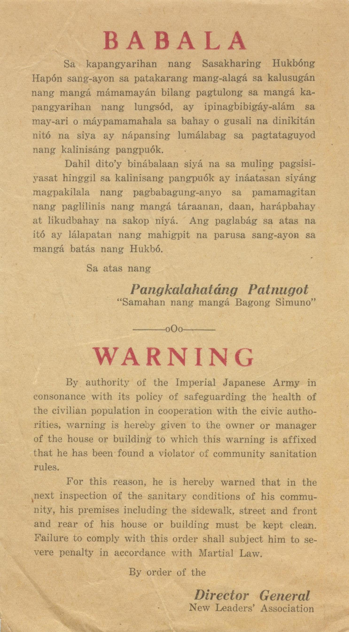 Title: [Warning Proclamation] Date: [1939-1945] Extent: 12.5x22.5cm Format: Artifacts—Leaflets Rights Info: No known restrictions on access Repository: Thomas Fisher Rare Book Library, University of Toronto, Toronto, Ontario Canada, M5S 1A5